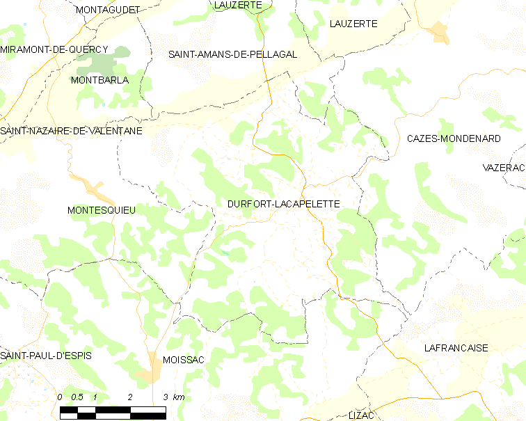 Map of French municipality Durfort-Lacapelette